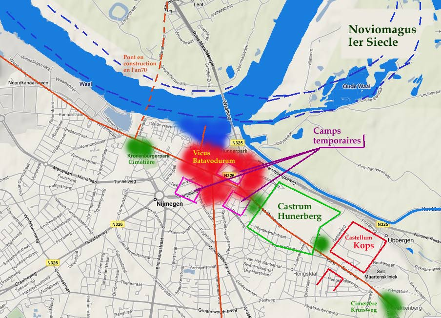 Noviomagus Ist century